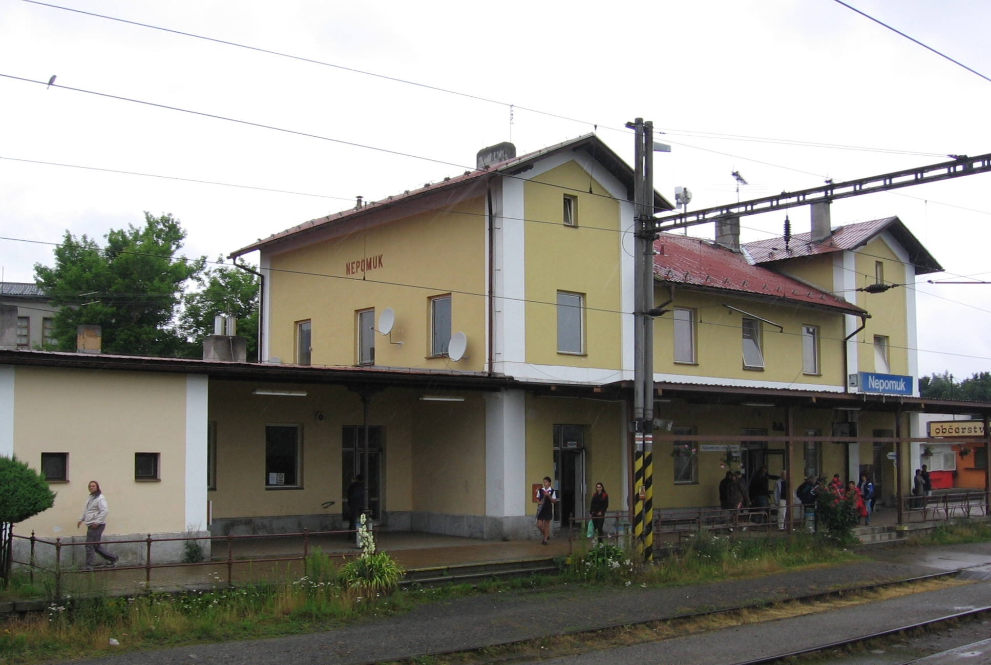 Nepomuk railway station (2008)